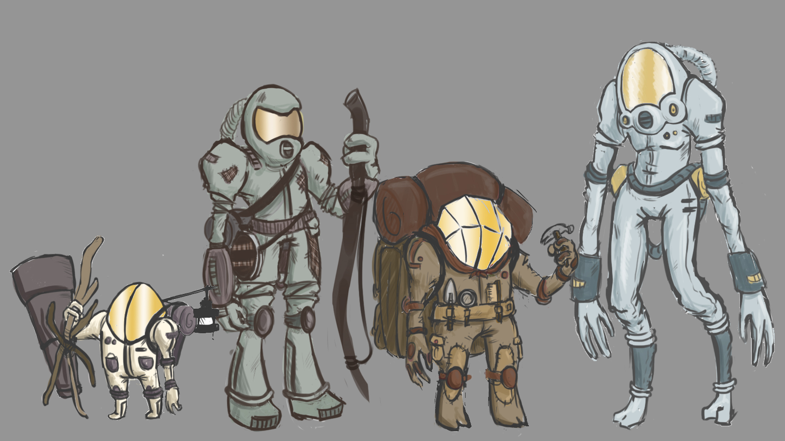 Concept art from Outer Wilds